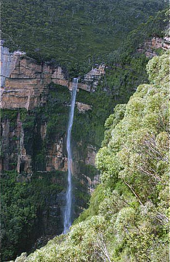 Govetts Leap Falls (also called the Bridal Veil Falls), north of Blackheath, in the Blue Mountains National Park, New South Wales, Australia.